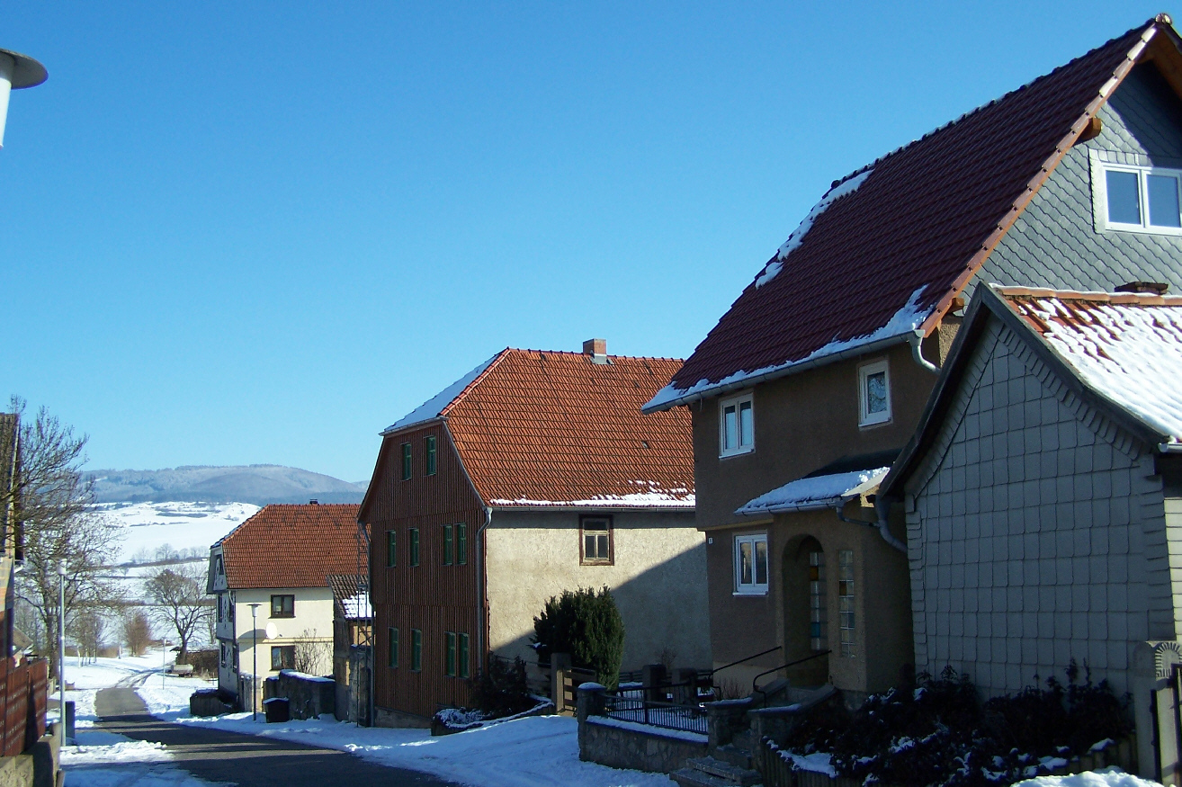 The Pfarrgasse road in Witzelroda.